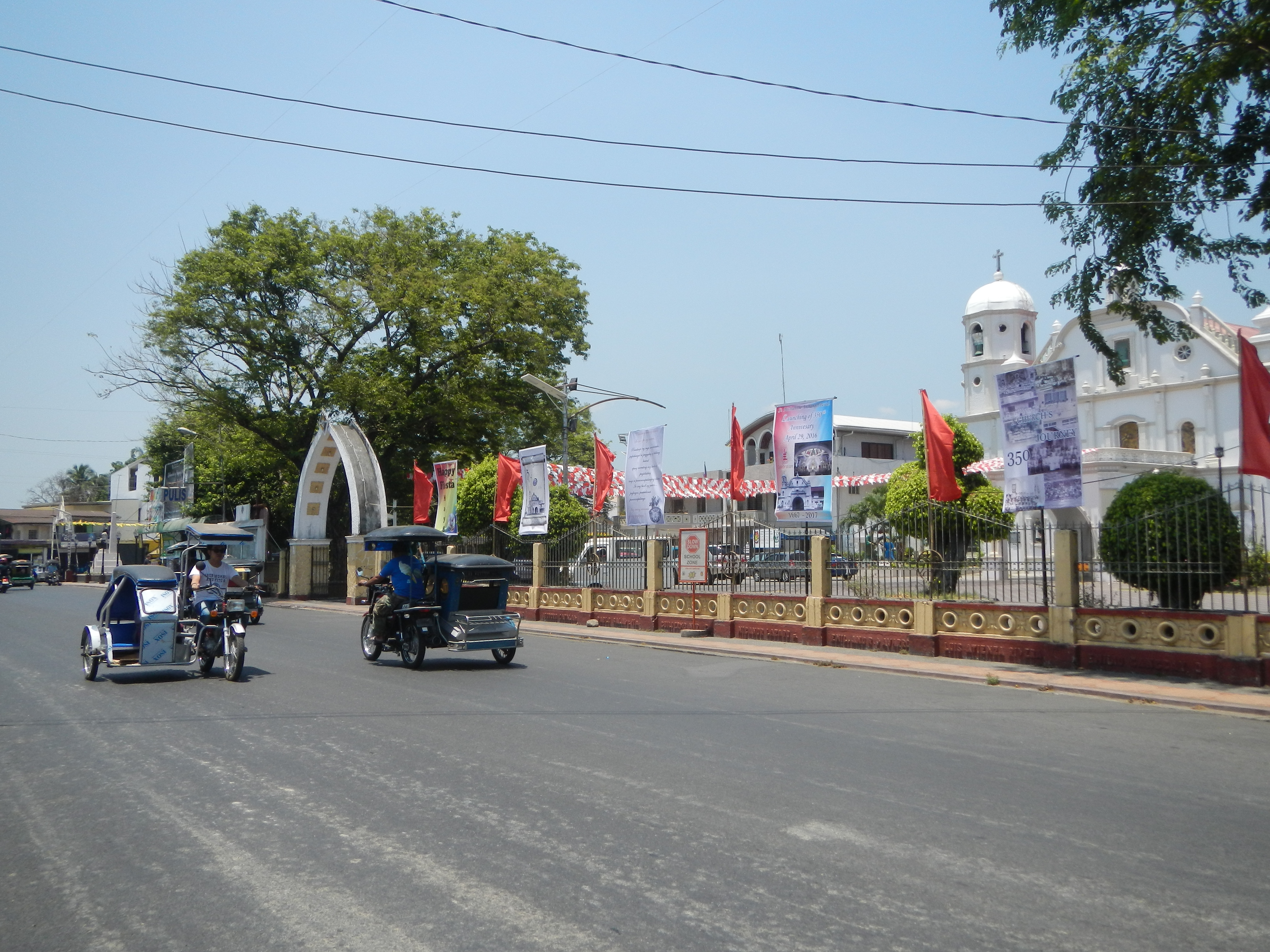 This is a micro-photography, that is, close-up of the Beautiful towns, Municipalities of Orion, Bataan and Limay, Bataan, that is, their landmarks and interesting points, inside their Barangays focusing upon their villages and sitios, upon streets, bridges and paddy fields (Technical description: Barangays Bilolo, Daang Bilolo, San Vicente (Poblacion), Arellano (Poblacion), Bagumbayan (Poblacion), Balut (Poblacion), Balagtas (Poblacion), Santo Domingo, Calungusan, Camachile, Santa Elena, General Lim (Kaput), Daang Pare and Putting Buhangin, Orion, Bataan, Bataan province, Saints Peter and Paul Parish Church, Roman Catholic Diocese of Balanga, Parish, upon the Limay, Bataan Welcome arch in Barangays Saint Francis I (Bo. Roxas), St. Francis II (Bacong) and Reformista, Limay, Bataan, Bataan province along the Pilar-Orion-Limay, Bataan Road (accessed from and along the Bataan Provincial Expressway (Orion-Pilar, Bataan section) of the Bataan Provincial Expressway also known as the Roman Expressway or the Roman Superhighway, interconnecting with and to Olongapo-Gapan Road).